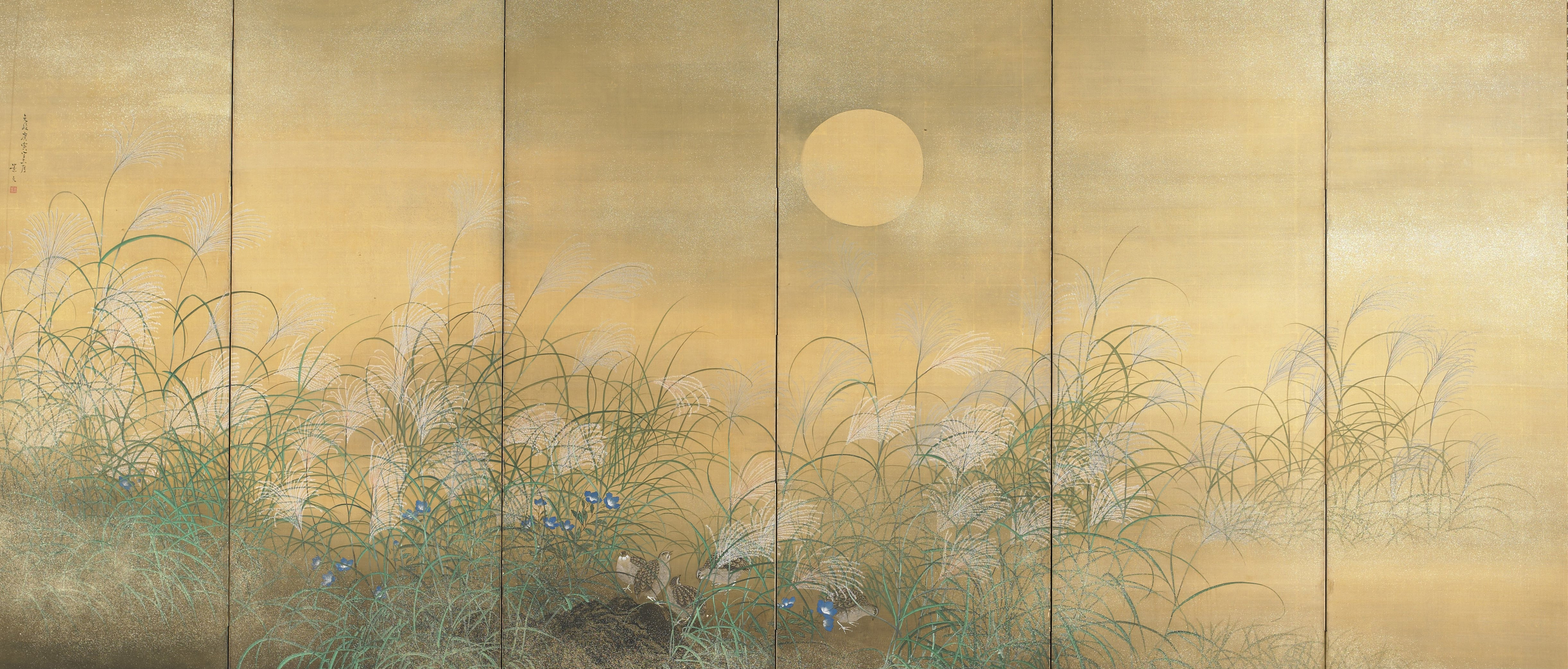 Quail Feeding Amidst Susuki and Kikyo - Matsumura Keibun - Google Cultural Institute. Birmingham Museum of Art. w76 x h67.75 IN. Silk folding screens